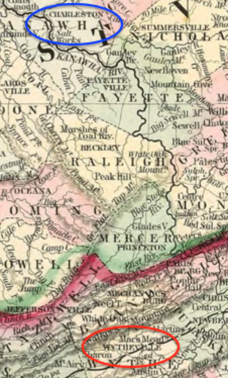 The map shows the area between Charleston, West Virginia, and Wytheville, Virginia, which have been circled. Union cavalry and infantry moved from Charleston to Wytheville in 1863 for a raid on the railroad and lead mine nearby. The raid became known as Toland's Raid.